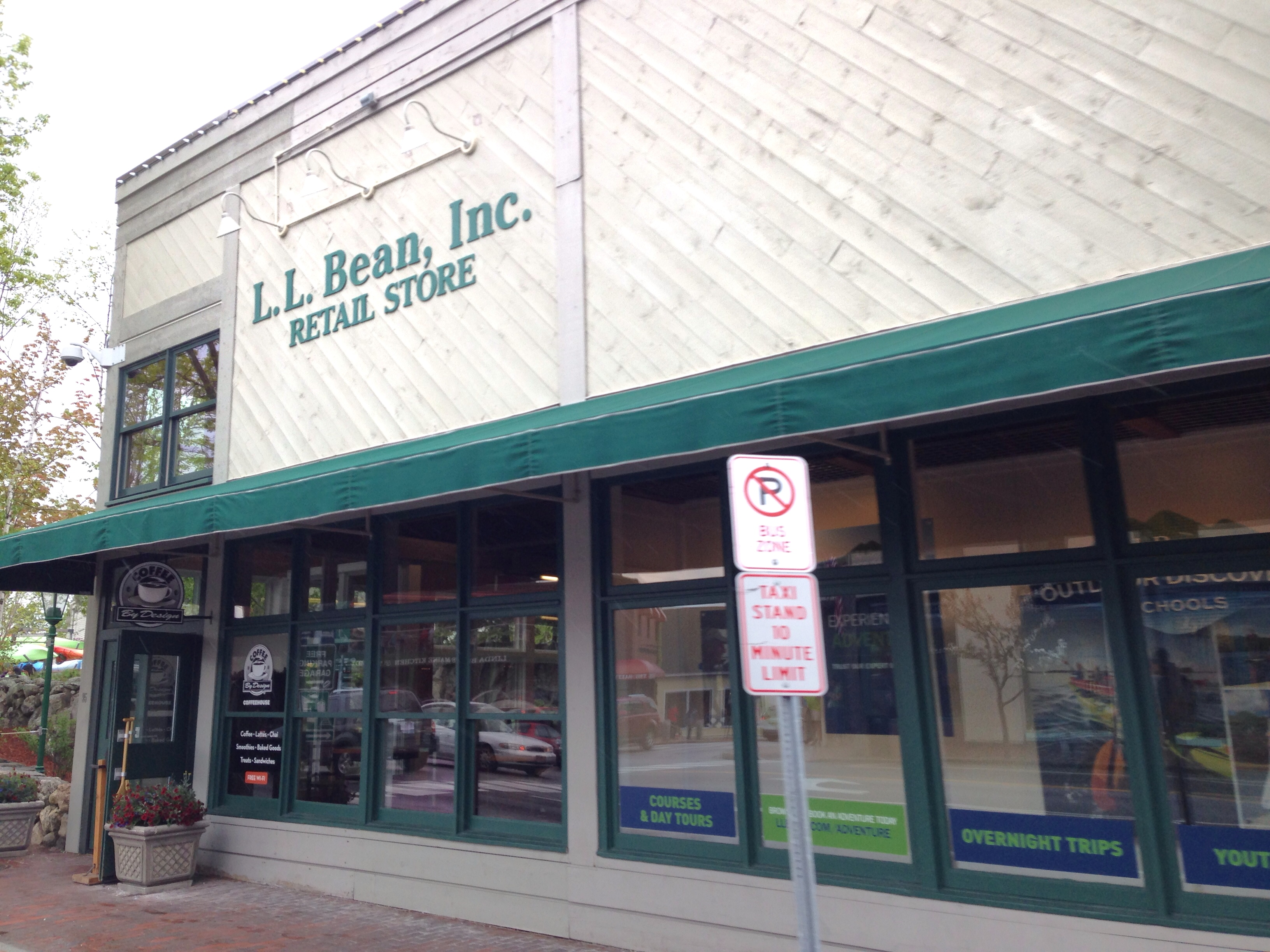 L.L. Bean (Store), Freeport, ME - May 2014